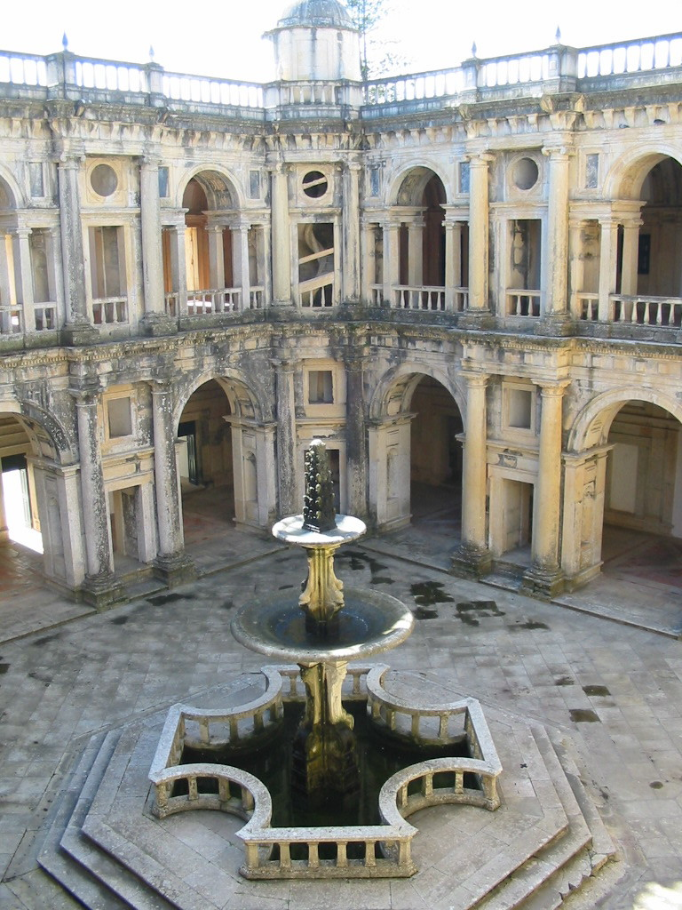 Convento de Cristo in Tomar: courtyard